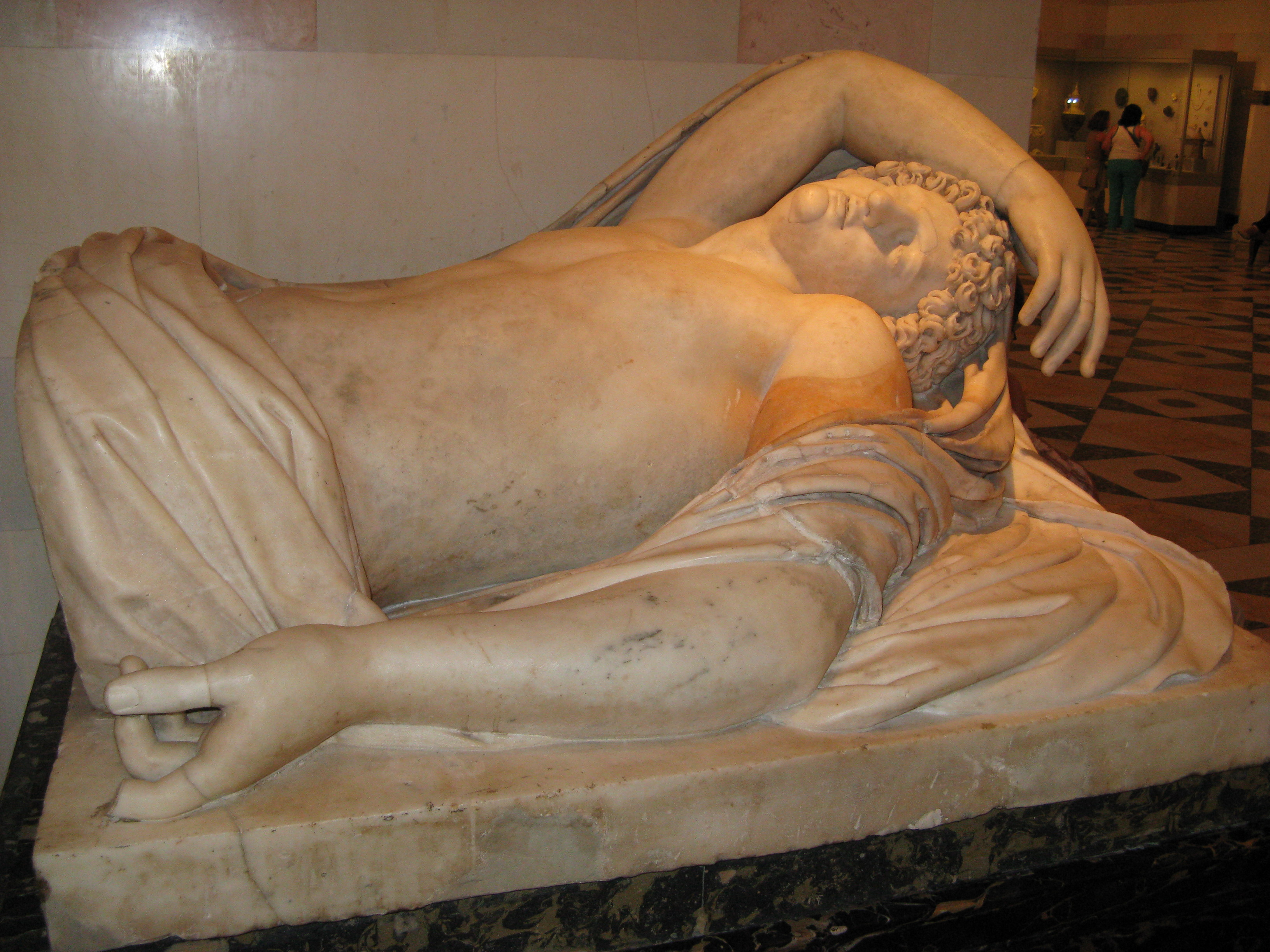 Fragment of a Roman statue of a Sleeping Apollo at the Hermitage.